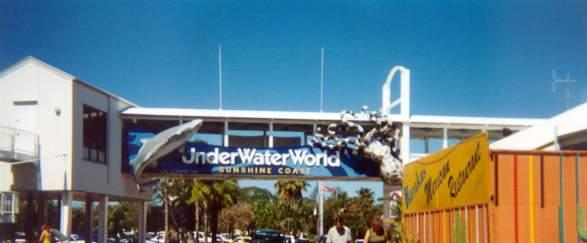 Entrance to UnderWater World, at Mooloolaba, Queensland, Australia ( this photograph was taken by Figaro )